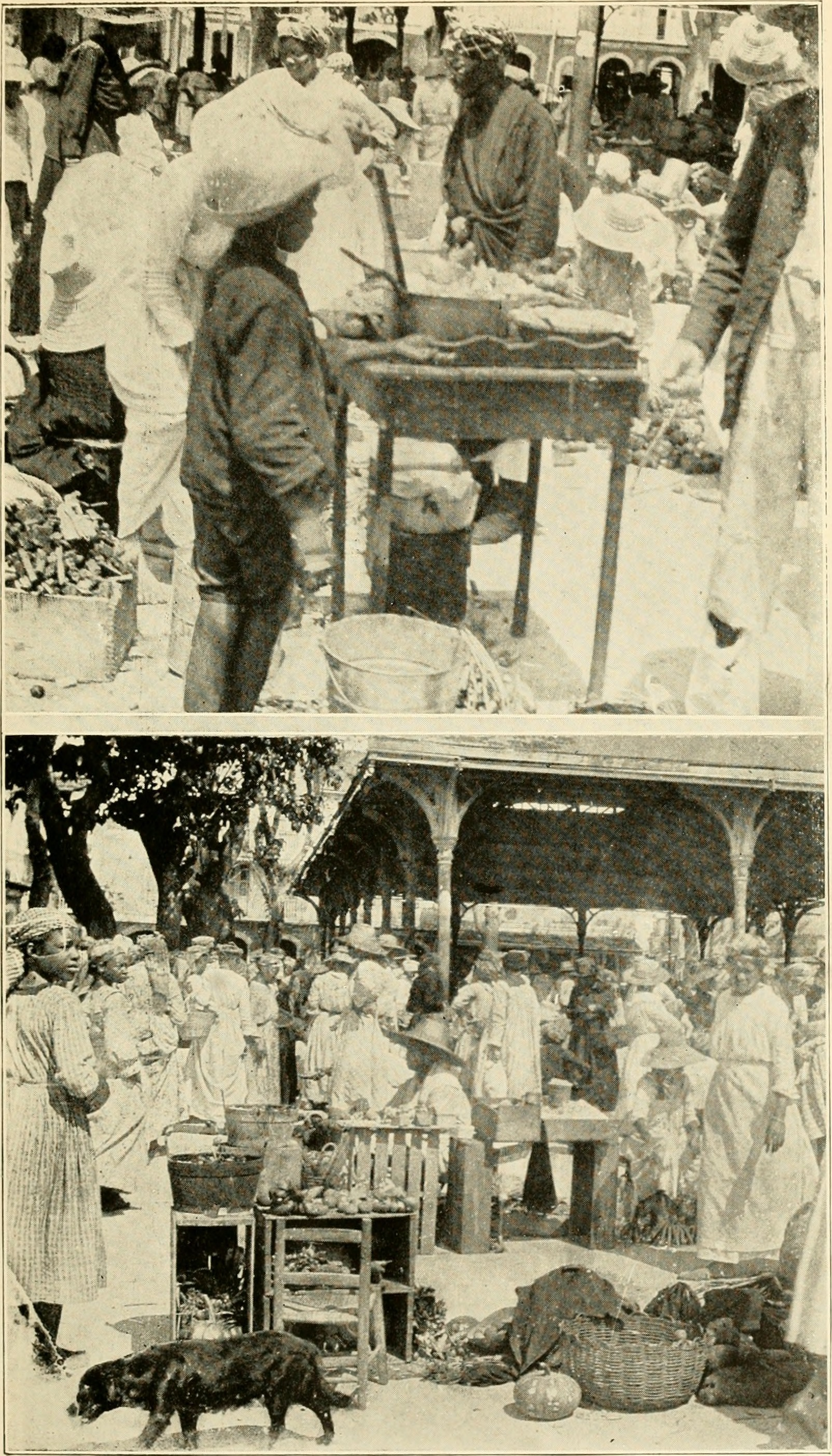 Two scenes of a market in Pointe-à-Pitre, Guadeloupe Title: Barbados-Antigua expedition; narrative and preliminary report of a zoological expedition from theUniversity of Iowa to the Lesser Antilles under the auspices of the Graduate College Year: 1919 (1910s) Authors: Nutting, Charles Cleveland, 1858-1927 Subjects: Barbados-Antigua Expedition, (1918) Natural history Natural history Publisher: Iowa City, The University Text Appearing Before Image: imilar to a general view of Pompeii, a city muchsmaller, by the way, than St. Pierre. I noticed that a goodmany new houses had been erected in the vicinity since I passedby before, and they say that a new city has arisen which intime will rival its ill-starred predecessor. A short distance beyond St. Pierre a big school of porpoisesgave us an exhibition of fancy swimming, hurdling and divingas they followed the ship and played alongside for half an houror so. One never tires of watching their aquatic acrobatics.Ricker secured a movie of them, of which we hope much. That evening at dinner the Iowa crowd almost caused a panicon board the Guiana in an attempt to show its appreciationof the courtesy of Captain Spinney in steaming in close to giveus a better view of St. Pierre. Of course University peopleknow of no better way of showing appreciation than by givingthe yell. So when we assembled for dinner, we waited untilthe Captain, who usually came down somewhat late, entered and PLATE IX Text Appearing After Image: Two scenes in market at Pointe a Pitre. Guadeloupe (See page 40) (Photographs by Willis Nutting) PLATE X